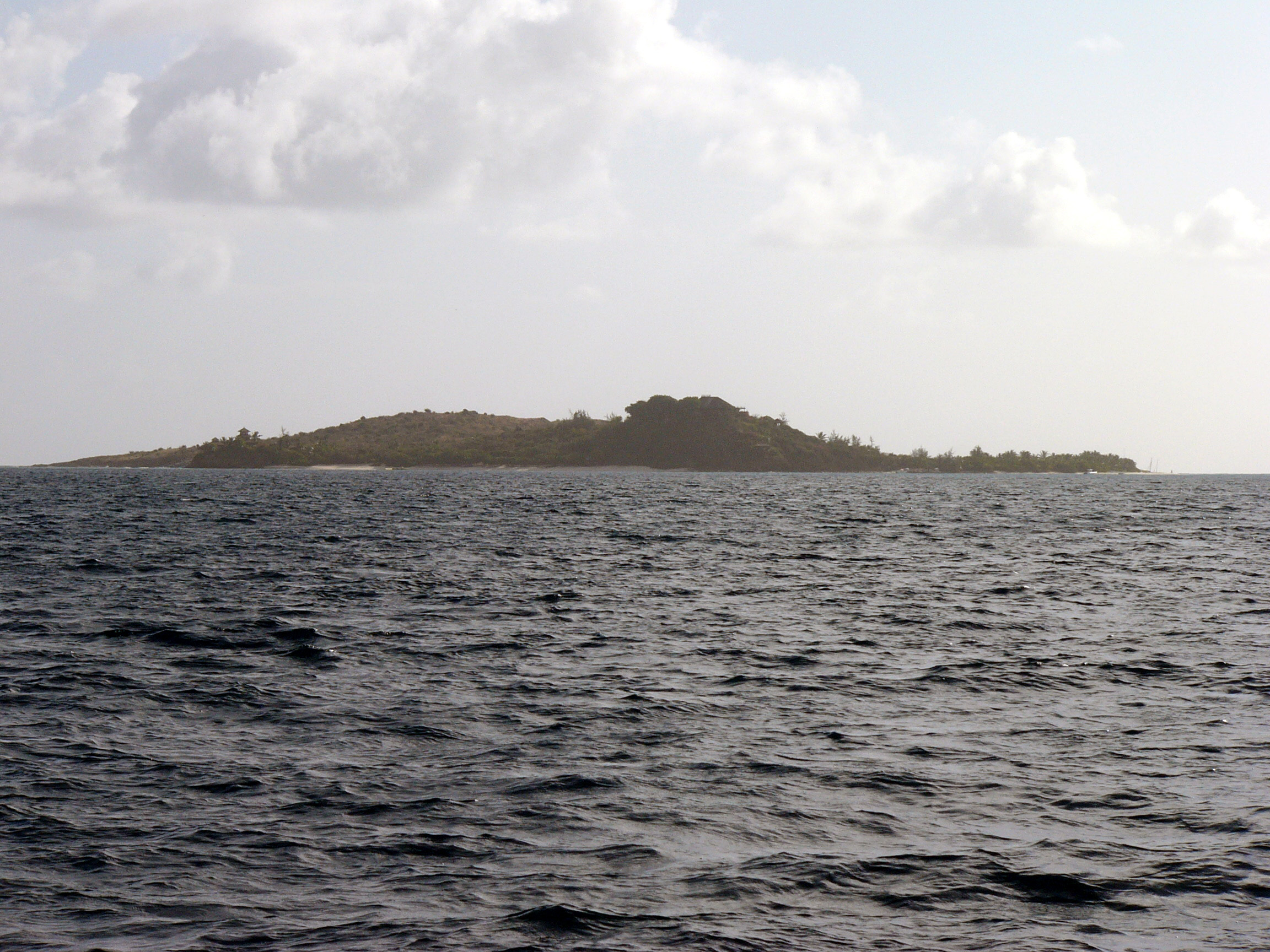 Necker Island, British Virgin Islands